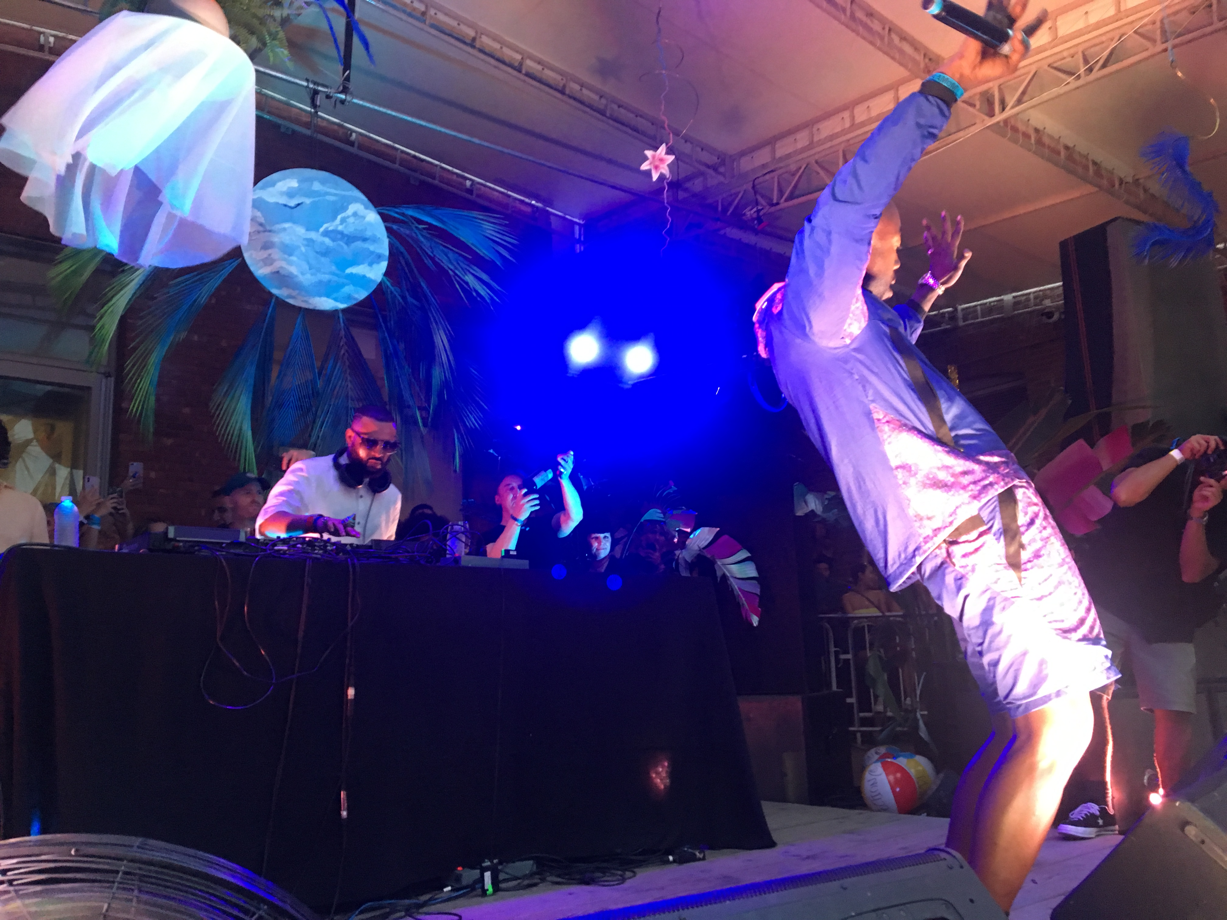 MadGibbs performing in MoMA's PS1 first Warm Up show in NYC - 2019